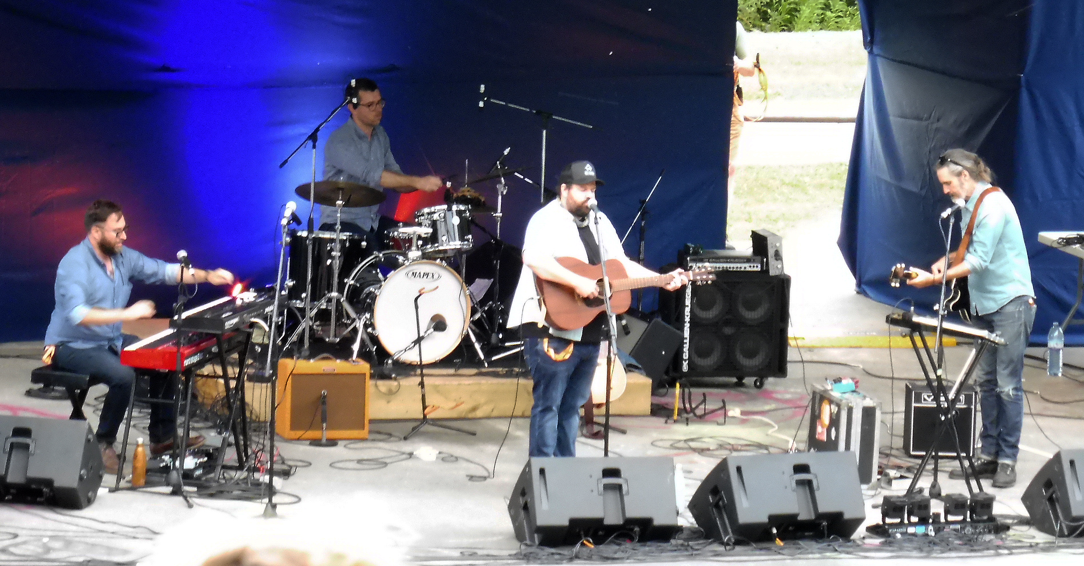 Donovan Woods on the main stag at the Peterborough Folk Festival, August 19, 2017.